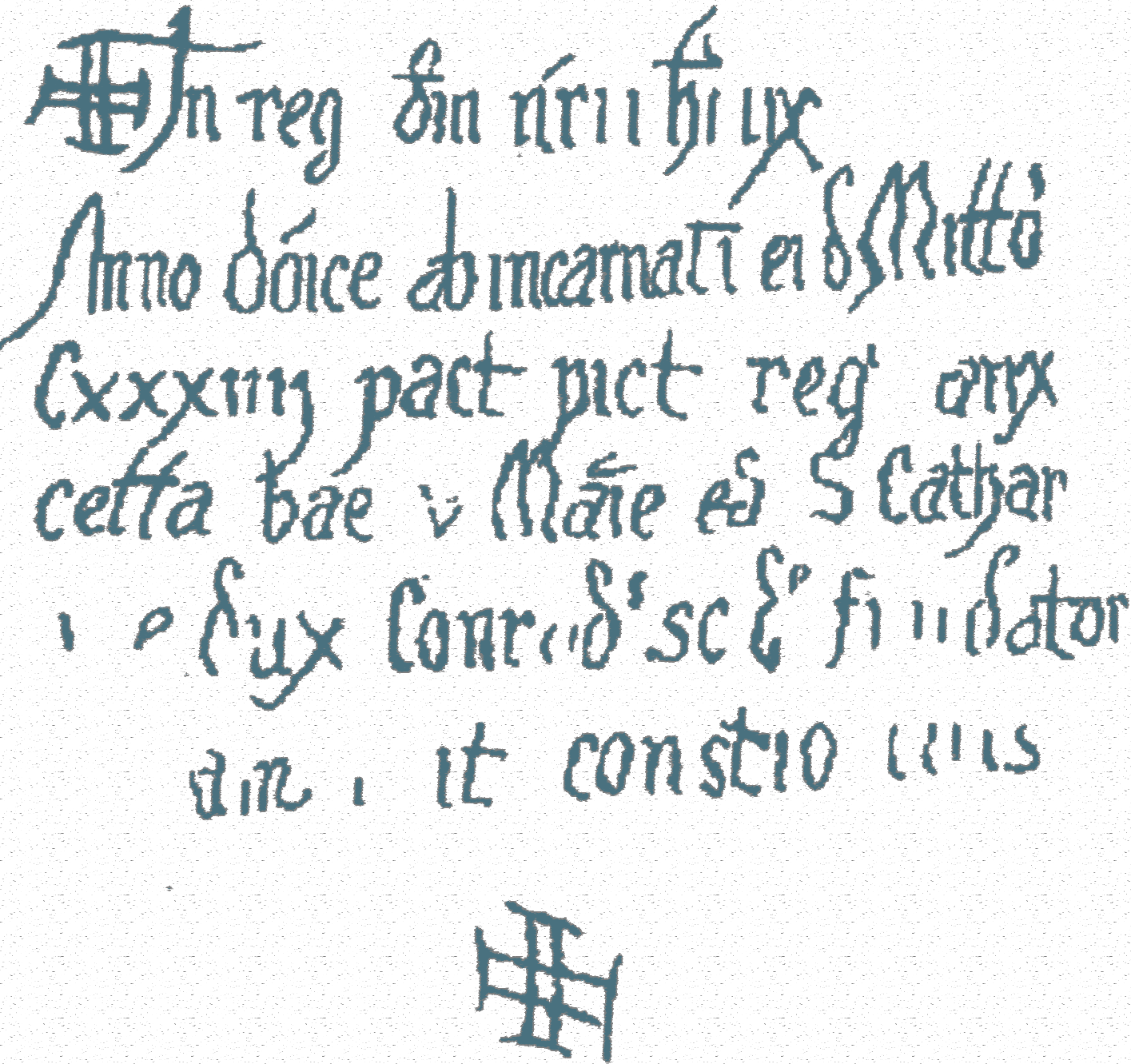 Sketch of medieval inscription in the plaster of rotunda in Znojmo, Czech Republic